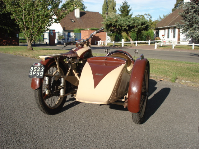 side-car simard adn motobécane bike french 1950